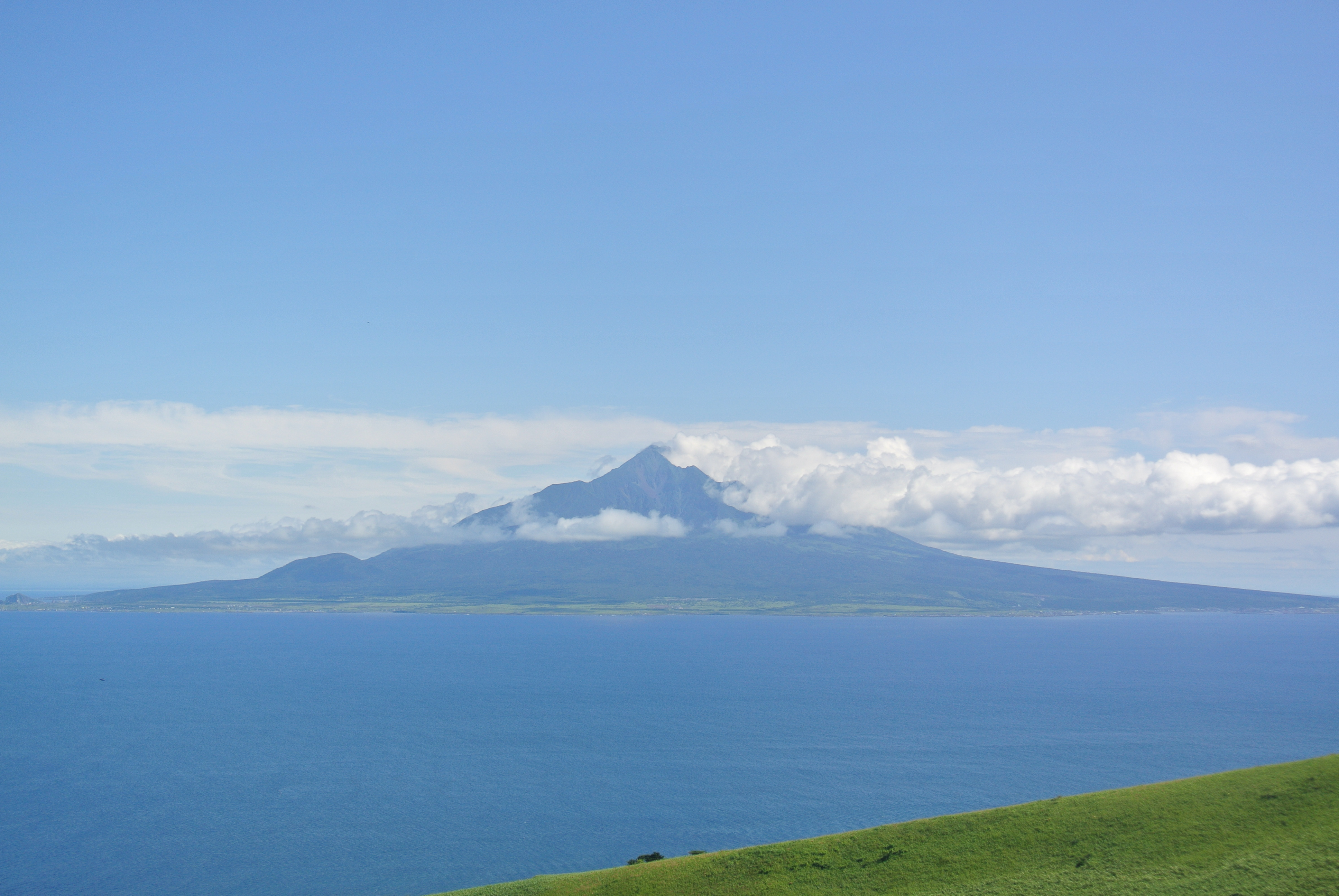 Rishiri Island